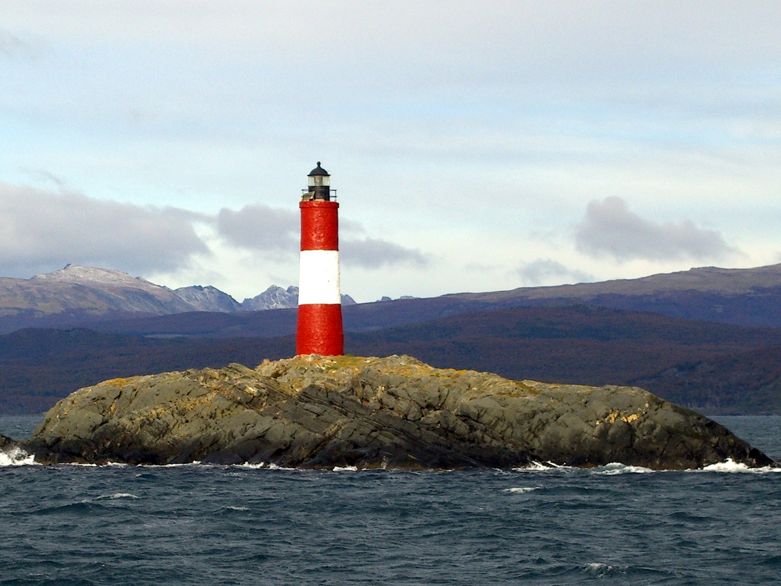 Les Eclarieus lighthouse in the Beagle Channel